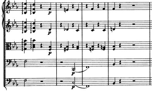 J. Brahms, Schicksalslied, Opus 54. Orchestra Excerpt 1